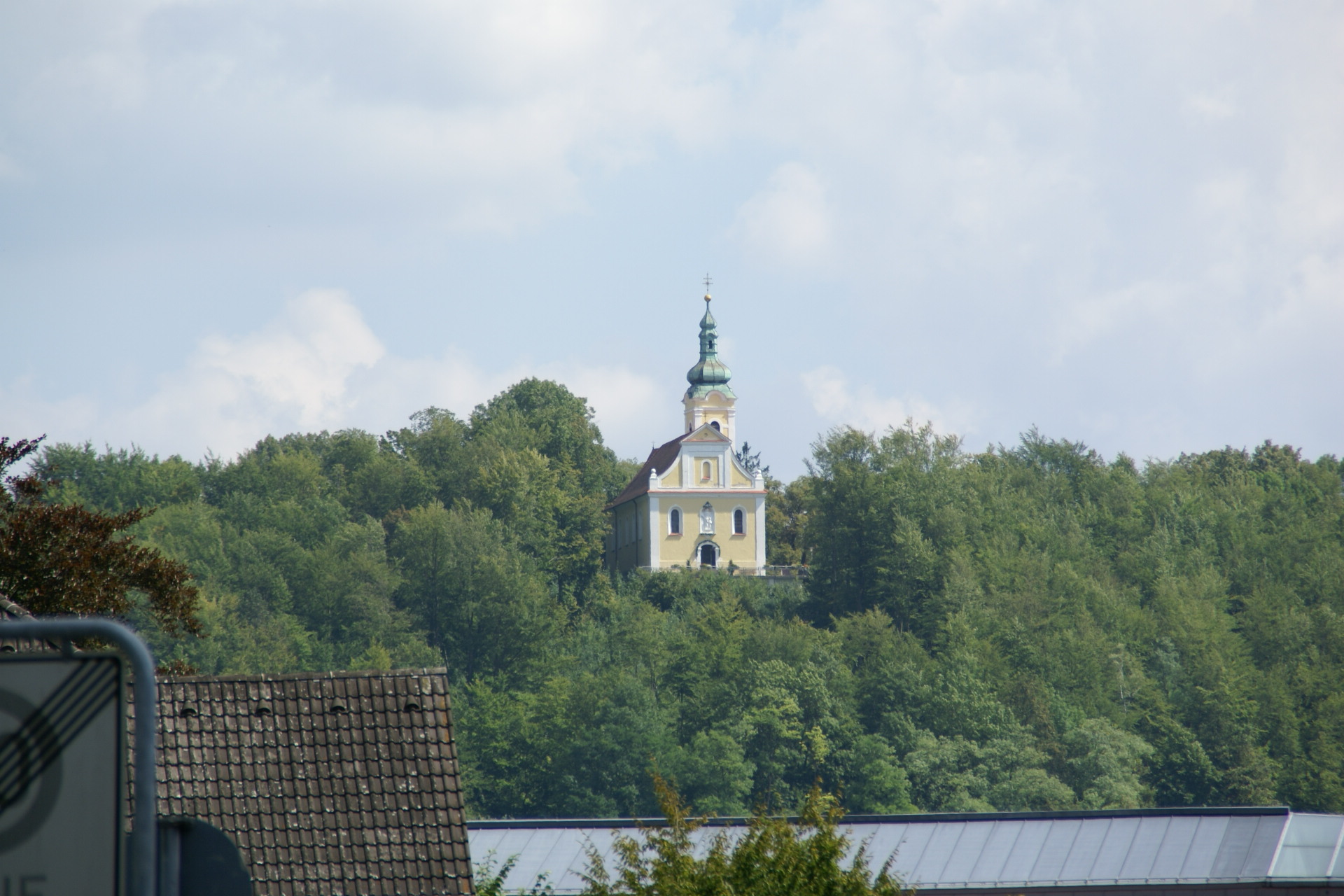 Annaberg and St. Anna Church as seen from Rosenberger Street in Sulzbach-Rosenberg (Germany)